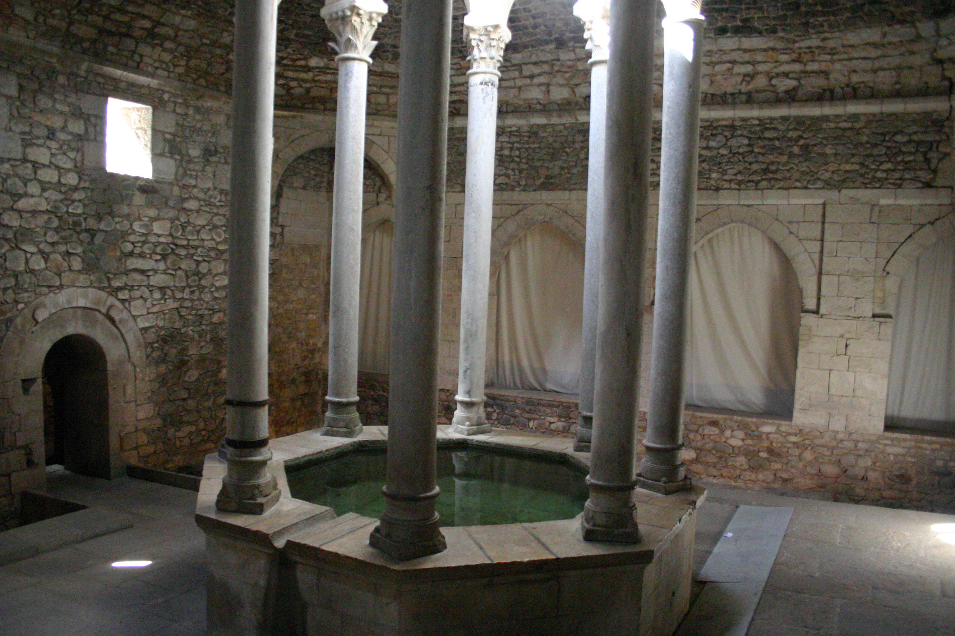 Apodyterium (Dressing room). Arab baths. (XIII Century)